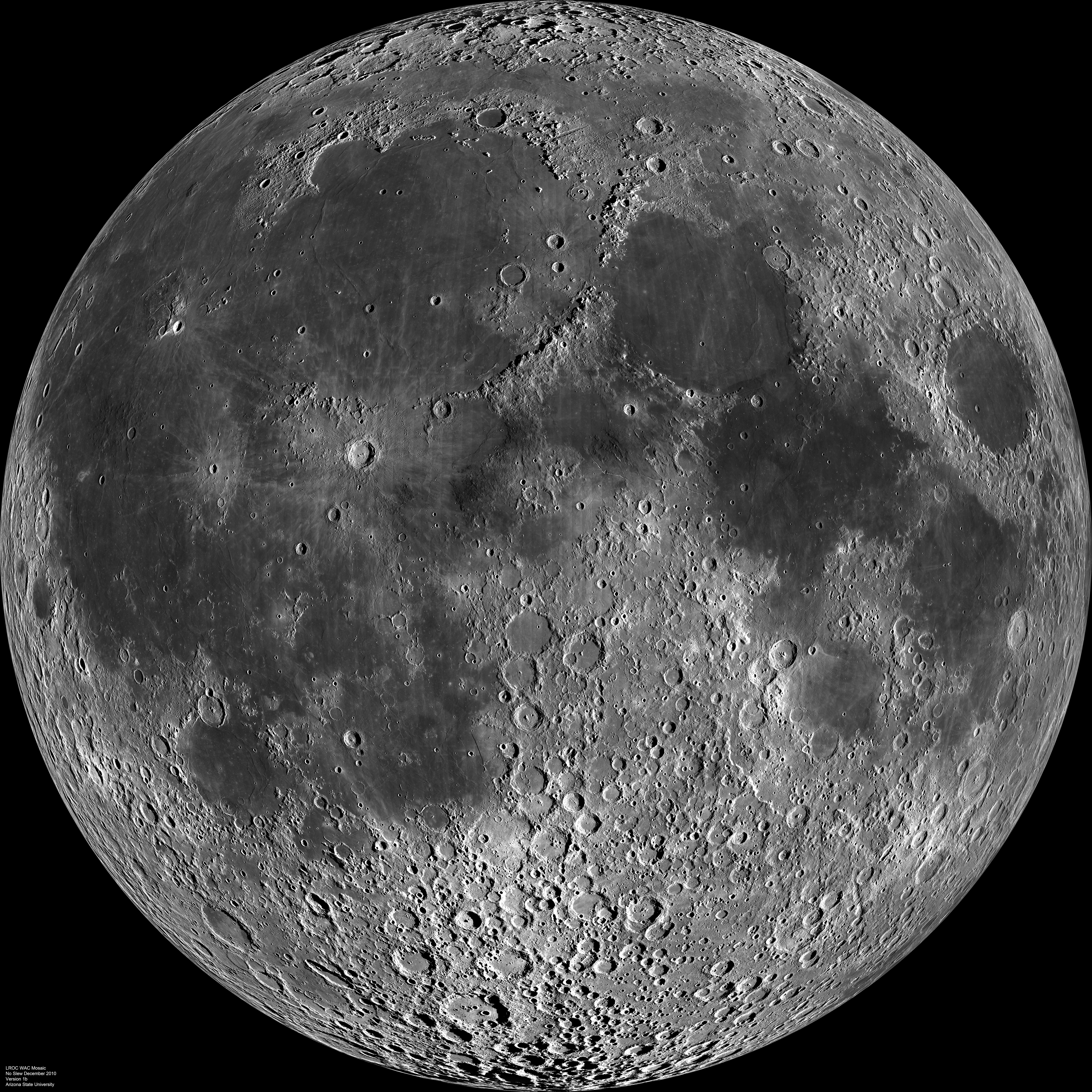 Moon nearside: mosaic of images, made by Lunar Reconnaissance Orbiter. The images were obtained with Wide Angle Camera (WAC), looking in nadir, during two weeks in mid-December 2010. Centered on latitude 0.0, longitude 0.0. Brightness of the original image was increased. This image shares angle of view, orientation and cropping with Moon nearside LRO 5000 (reflectance).jpg, so, they are interchargeable in positional maps.